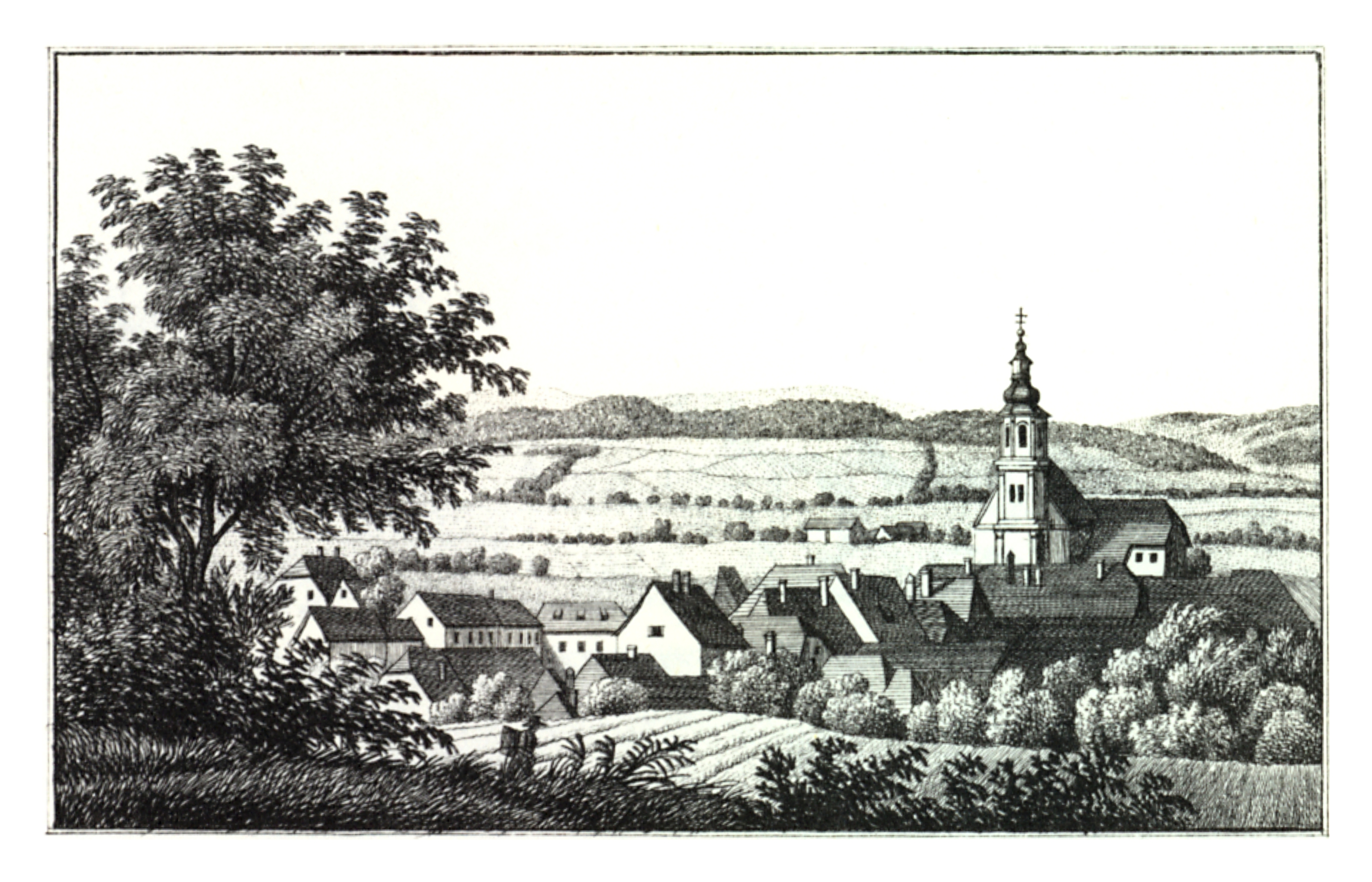 J. F. Kaiser - lithographirte Ansichten der Steyermärkischen Städte, Märkte und Schlösser Graz, 1825 Joseph Franz Kaiser (1786–1859) Alternative names J. F. KaiserDescriptionAustrian printer and editorDate of birth/death 11 March 1786 19 September 1859Location of birth/death Graz (Styria) GrazAuthority control : Q1499963 VIAF: 30629353 ISNI: 0000 0000 3083 0153 LCCN: n87141671 GND: 129880159 NLP: A24960305 WorldCat creator QS:P170,Q1499963 Scanprojekt Community Projektbudget 2012 This scan or this PDF-file was created within the GLAM-project Bookscanning, supported by Wikimedia Germany and Wikimedia Austria as a part of the community-project to capture books, documents and pictures which are not eligible to copyright or for which the copyright has expired. This document describes or depicts an object which is located in Austria today. Send requests for uncompressed scans to Hubertl. This work is in the public domain in its country of origin and other countries and areas where the copyright term is the author's life plus 100 years or less. You must also include a United States public domain tag to indicate why this work is in the public domain in the United States. This file has been identified as being free of known restrictions under copyright law, including all related and neighboring rights.